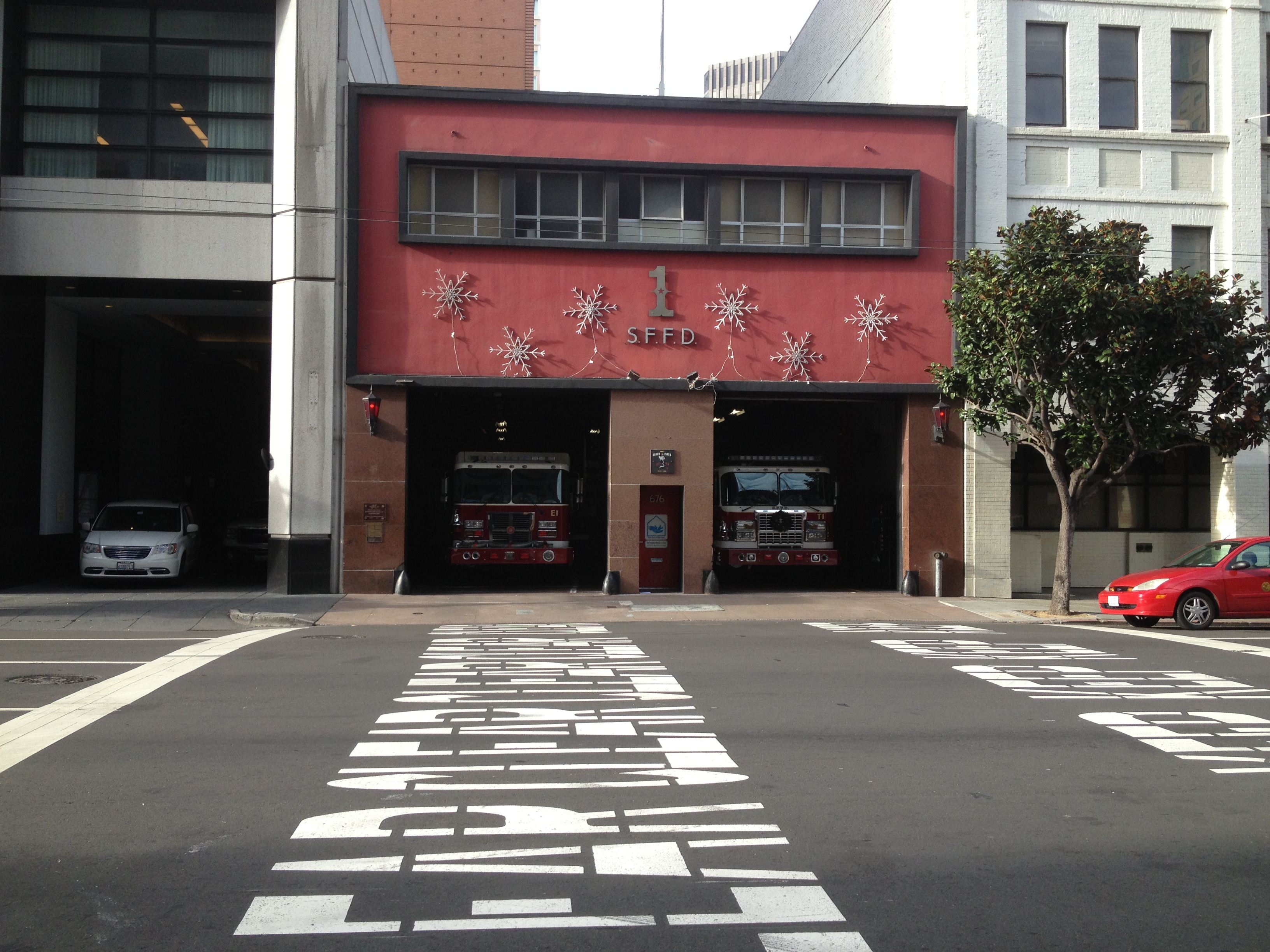 San Francisco Fire Department Station 1 on Howard Street.